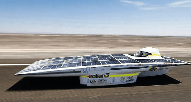 Eolian 3 cruising through the desert.